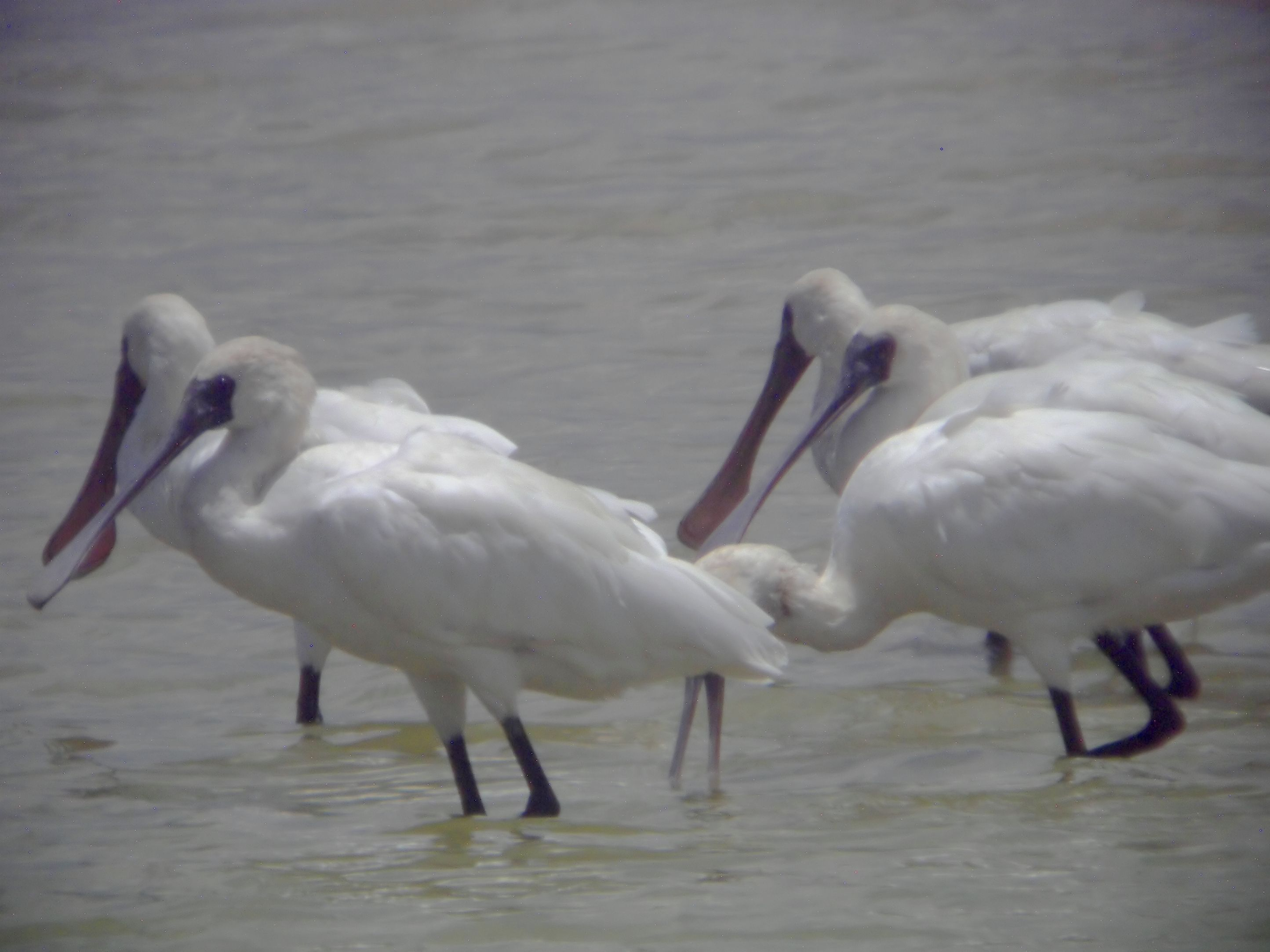 Black-faced Spoonbill Platalea minor, wintering in Hong Kong. Bân-lâm-gú: Tī Hiong-káng kuè-tang ê oo-bīn-lā-pue (Platalea minor). 佇香港過冬的烏面抐桮（Platalea minor）。